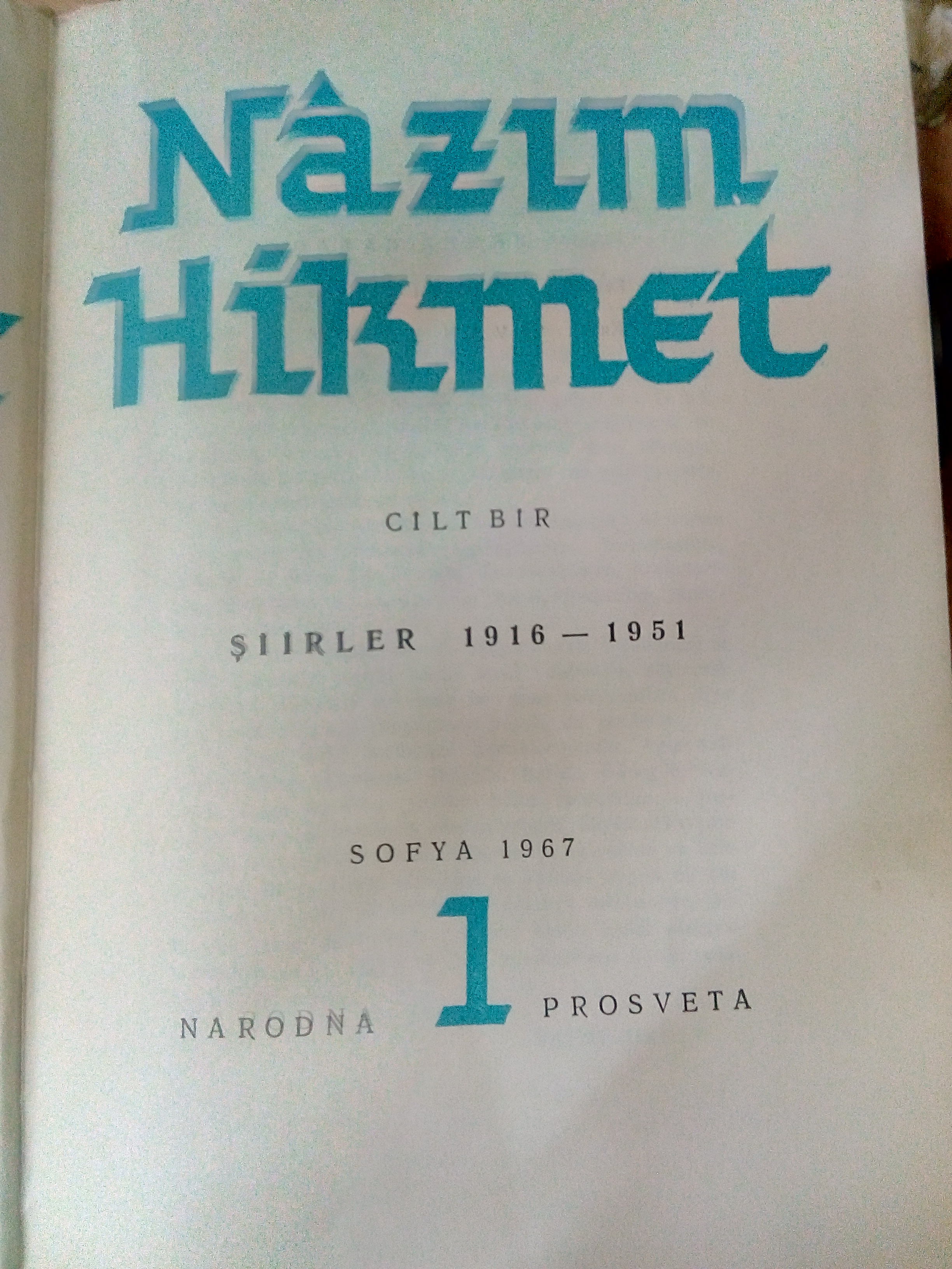 Frontispiece of Volume 1 of the first-ever collected works of the Turkish poet Nâzım Hikmet, published in communist Bulgaria (Nâzım Hikmet. 1967-1972. Bütün eserleri [Collected Works] (8 vols). Sofya [Sofia, Bulgaria]: Narodna Prosveta)